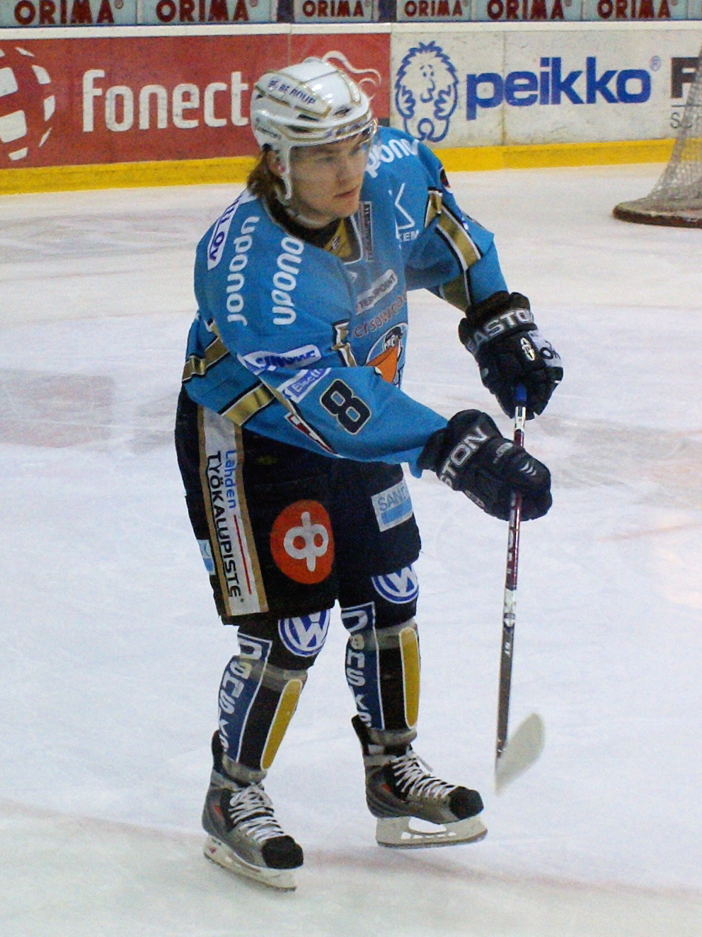 Finnish ice hockey defenceman Mikko Kousa of Pelicans Lahti in March, 2009.